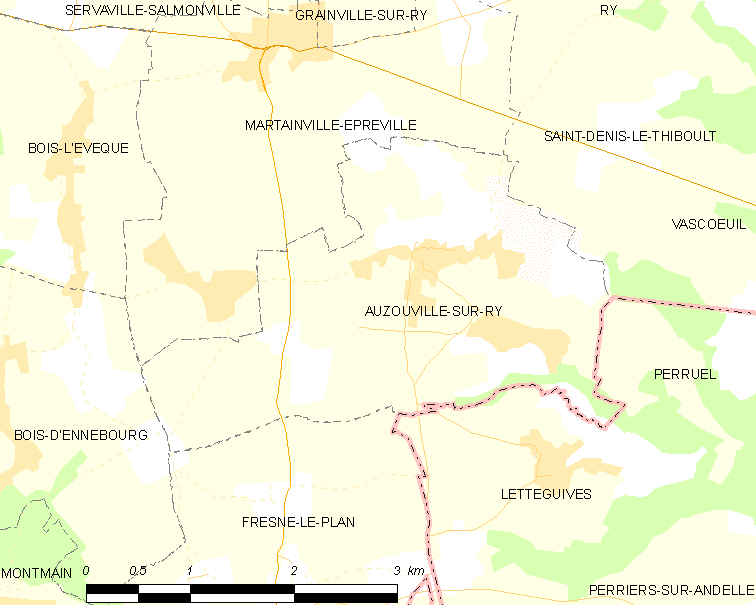 Map of French municipality Auzouville-sur-Ry